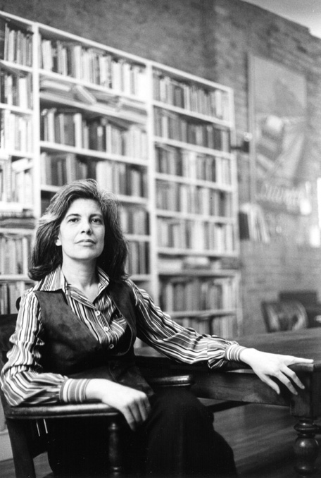 Susan Sontag photographed in her home 1979 ©Lynn Gilbert